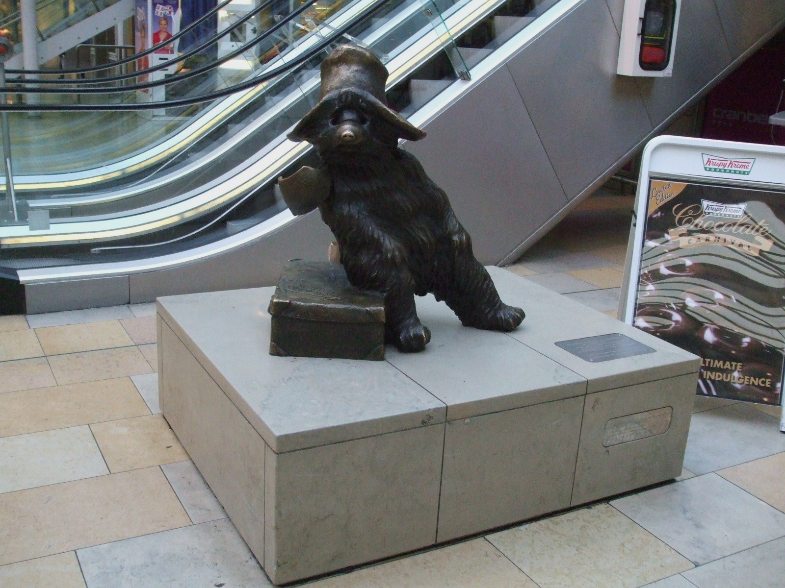 Statue of Paddington Bear in the shopping area of Paddington railway station